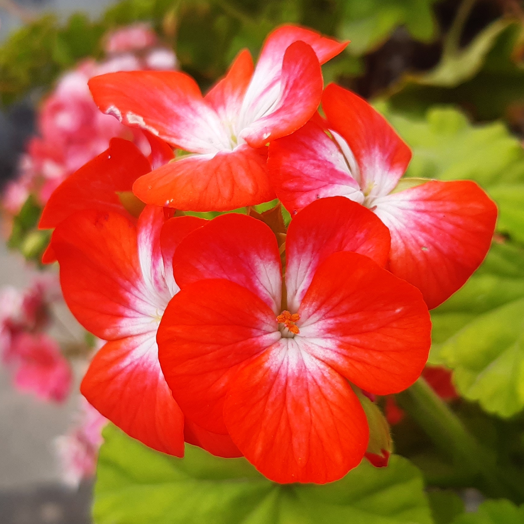 Geranium- Flower